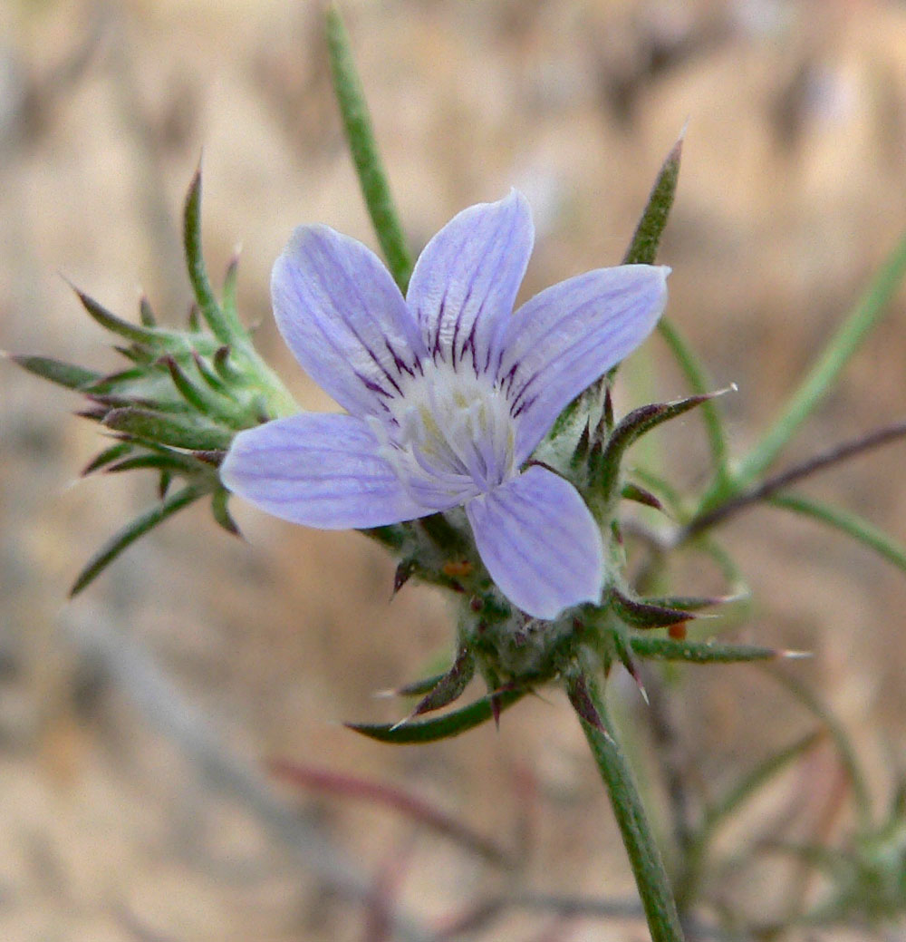 Eriastrum eremicum in the southern end of Red Rock Canyon near Blue Diamond, Nevada